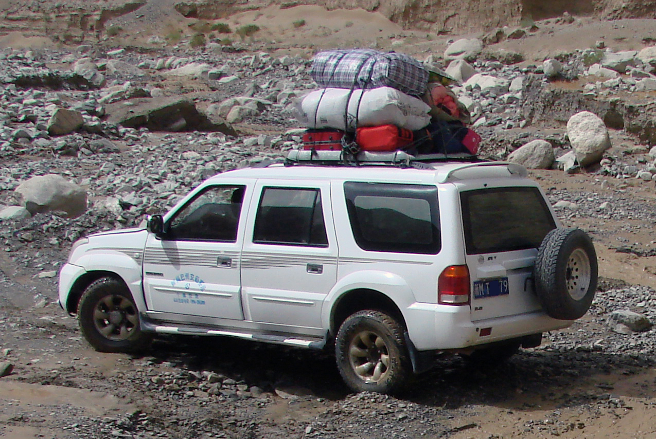 A Huanghai (SG Auto) DG 6480 Dawn 2.8 diesel SUV in the Taklamakan Desert, carrying quite the load